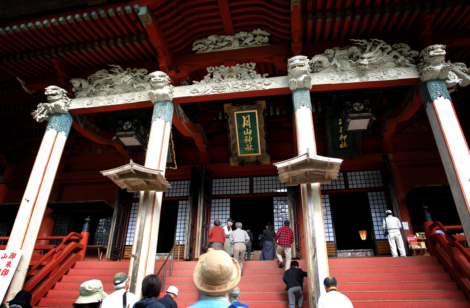 Ideha jinja Haiden